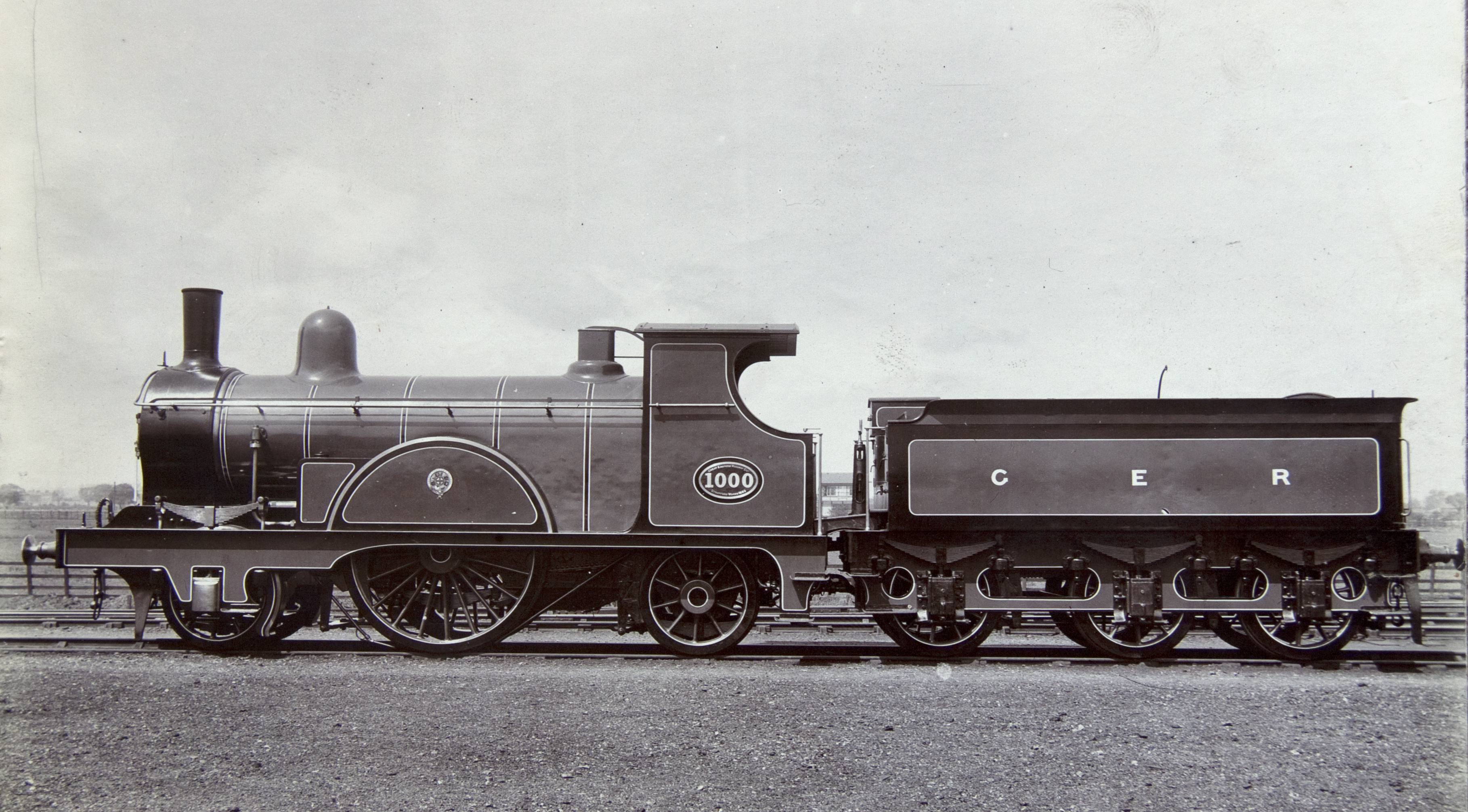 In 1888 James Holden experimented by removing the side rods of T19 No. 721 to form a 2-2-2. In 1889 the first of a new class appeared: initially No. 740 (later 789 and 780) and this was followed by two batches of ten: 770-779 in 1891 and 1000-1009 in 1893. This photo was taken from an old original photo we came across while helping to clear the house of a deceased friend. I have uploaded it to Flickr in the hope that it might be interesting to steam enthusiasts.